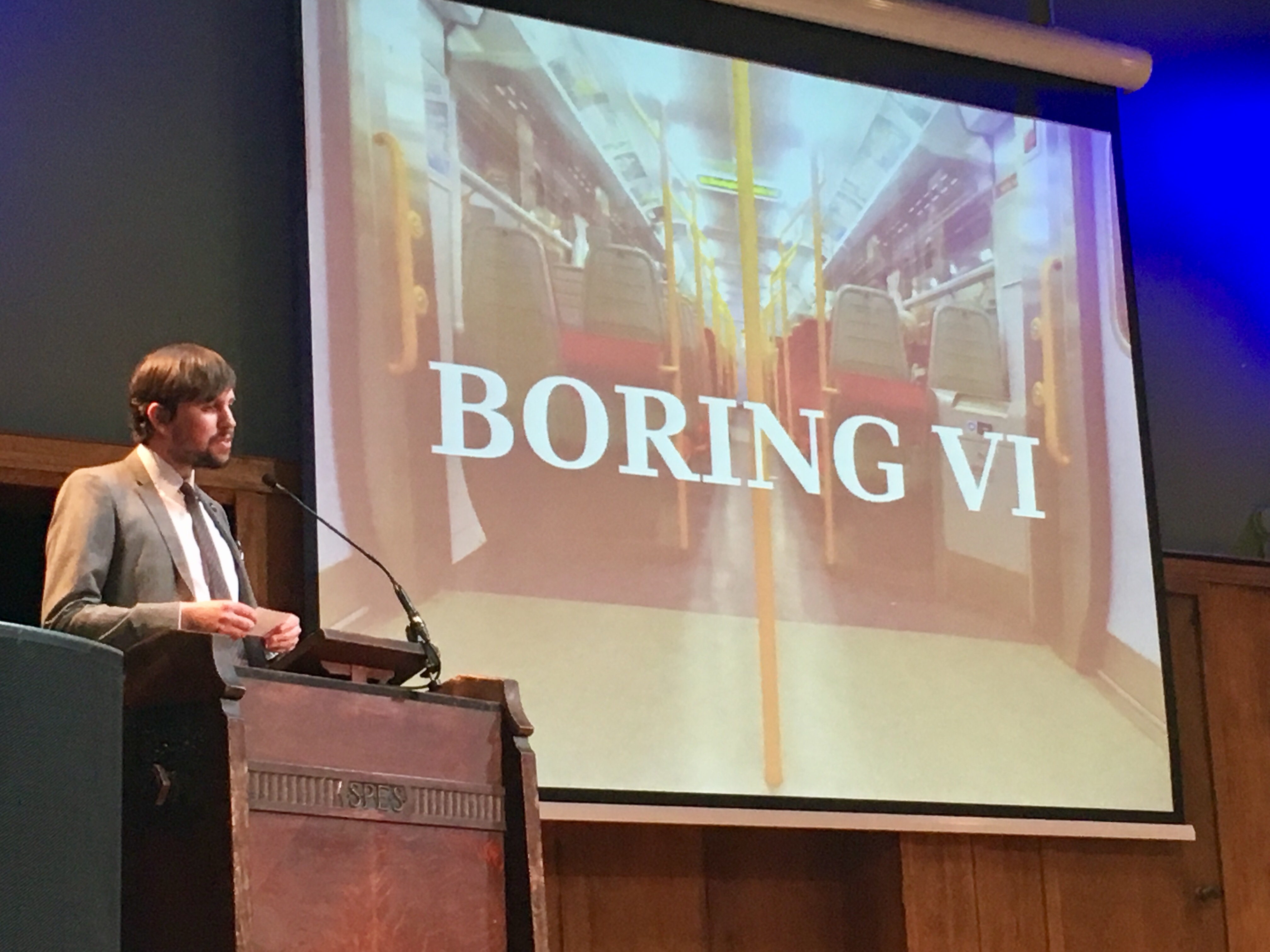 James Ward talking at Boring Conference